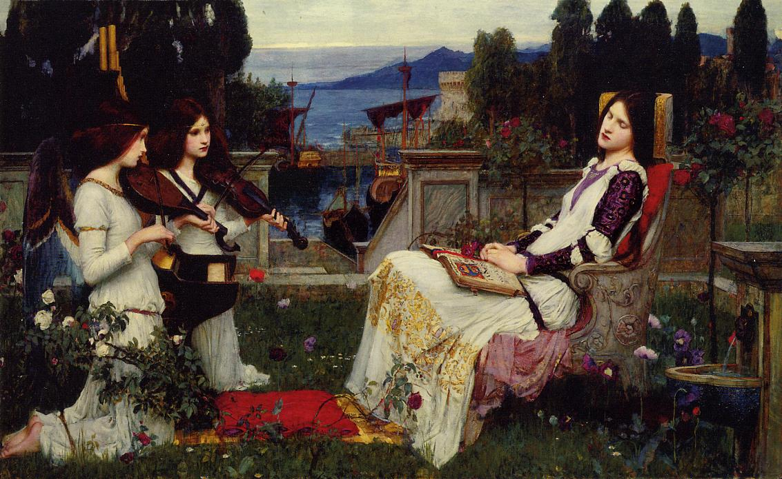 Saint Cecilia